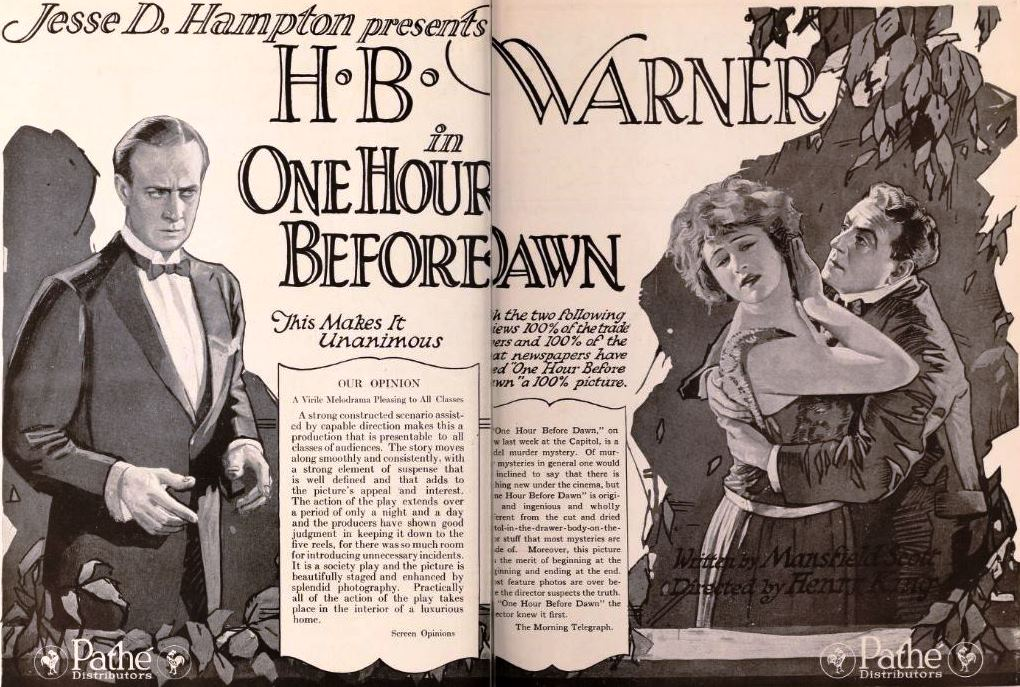 Advertisement for the American drama film One Hour Before Dawn (1920) with H.B. Warner, from the insert after page 18 of the August 28, 1920 Exhibitors Herald.